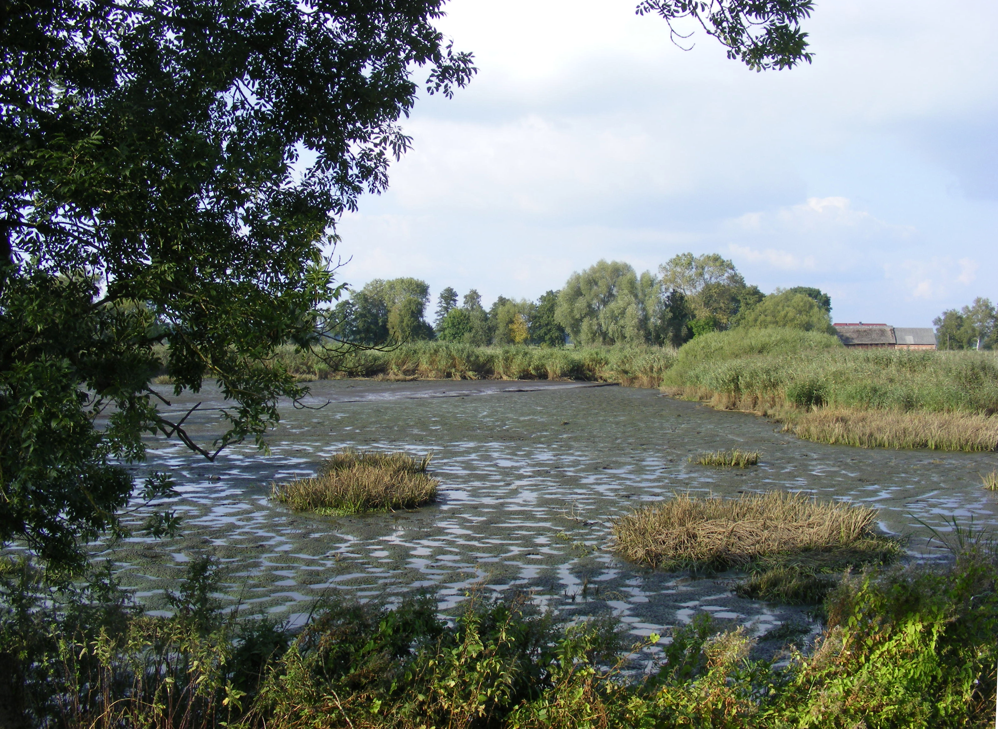 Mudflats in the freshwater region of lower Wümme in September with low tide